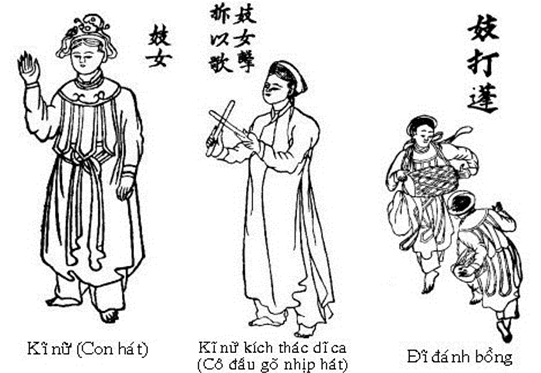 Three drawings of Cô đầu during French colonial rule, late 19th century - early 20th century, in Northern Vietnam (Tonkin).